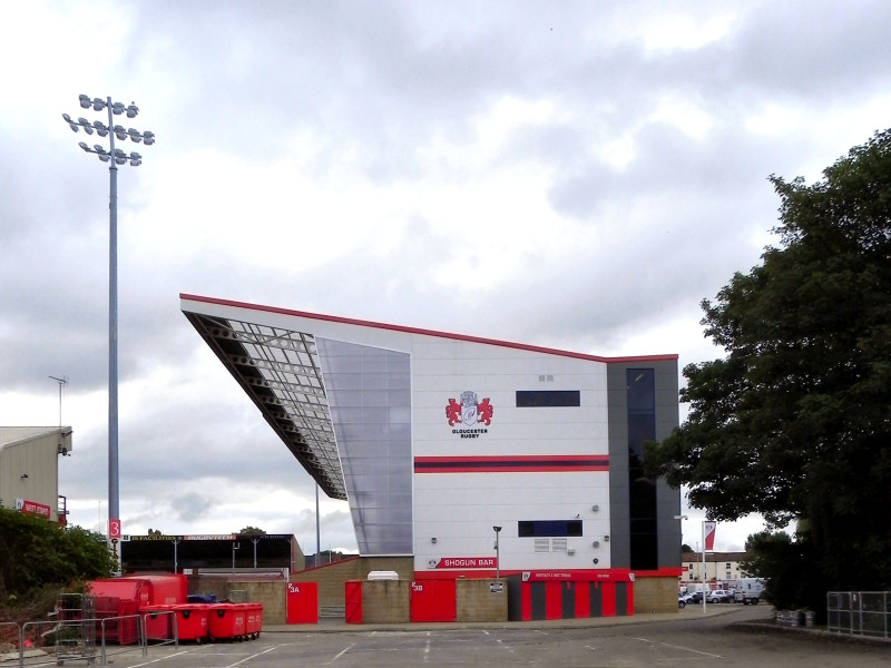 Kingsholm Stadium (Gloucester RUFC)